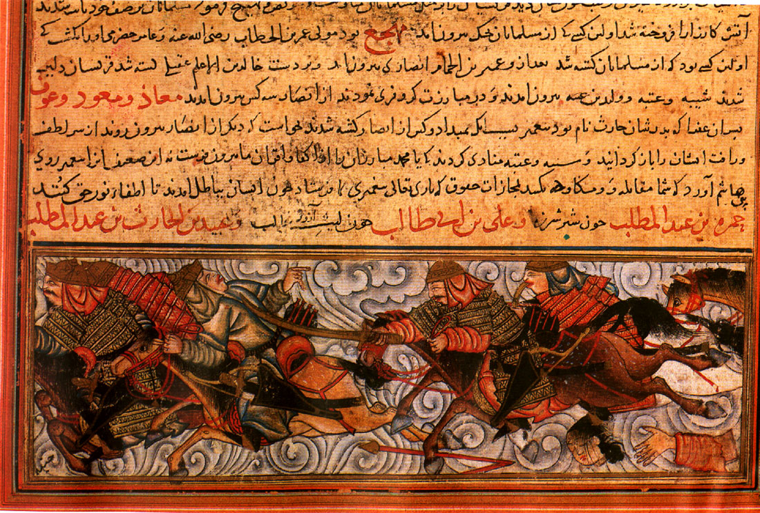 Battle of Badr, iranian miniature; Pursuit Scene from the Battle of Badr Jami' al-Tawarikh ('Universal History' of Rashid al-din). Rashidiyya. Topkapi Palace, MS Hazine 1653, folio 165b